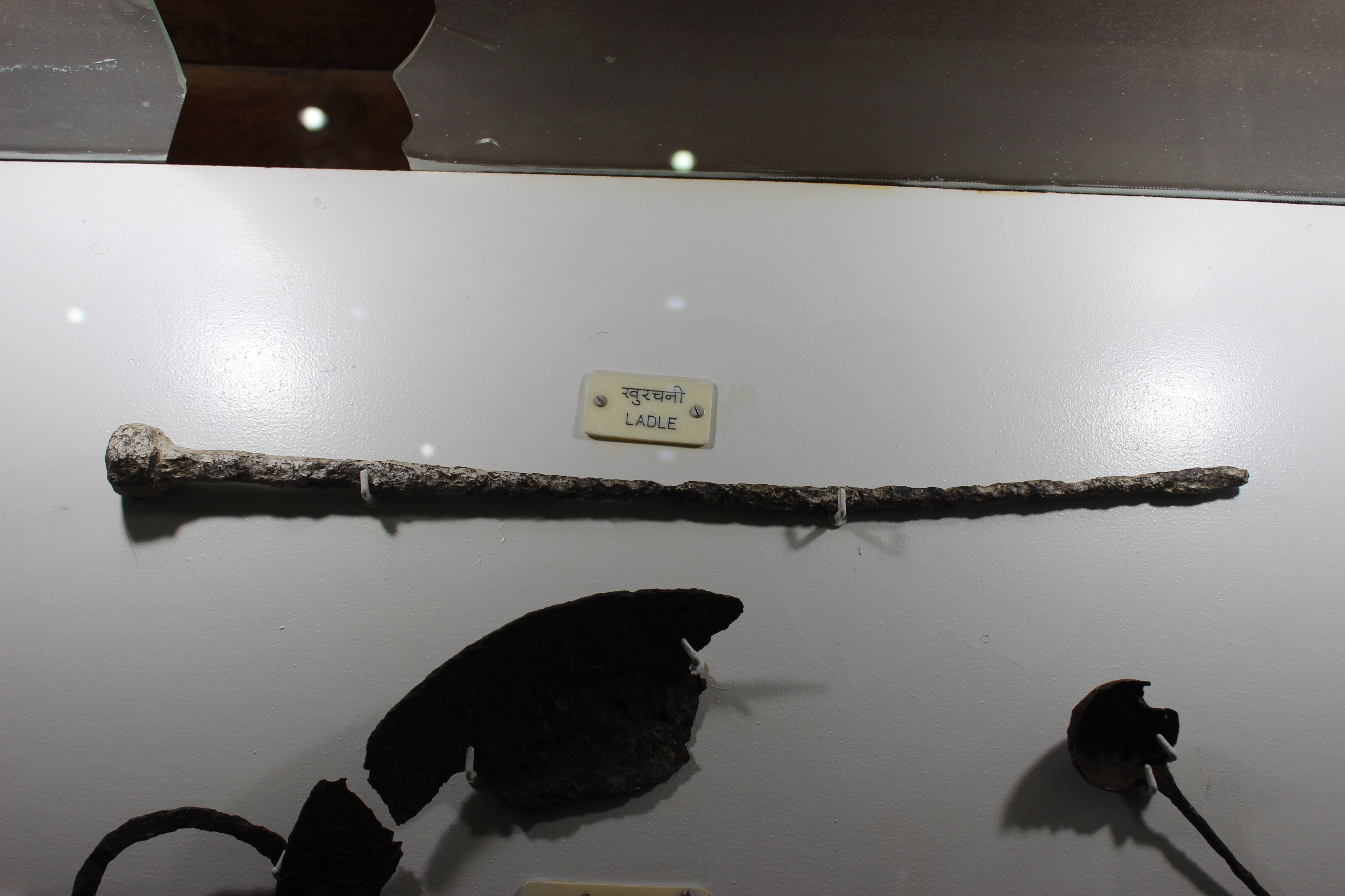 Iron ladle from Sirpur Excavation